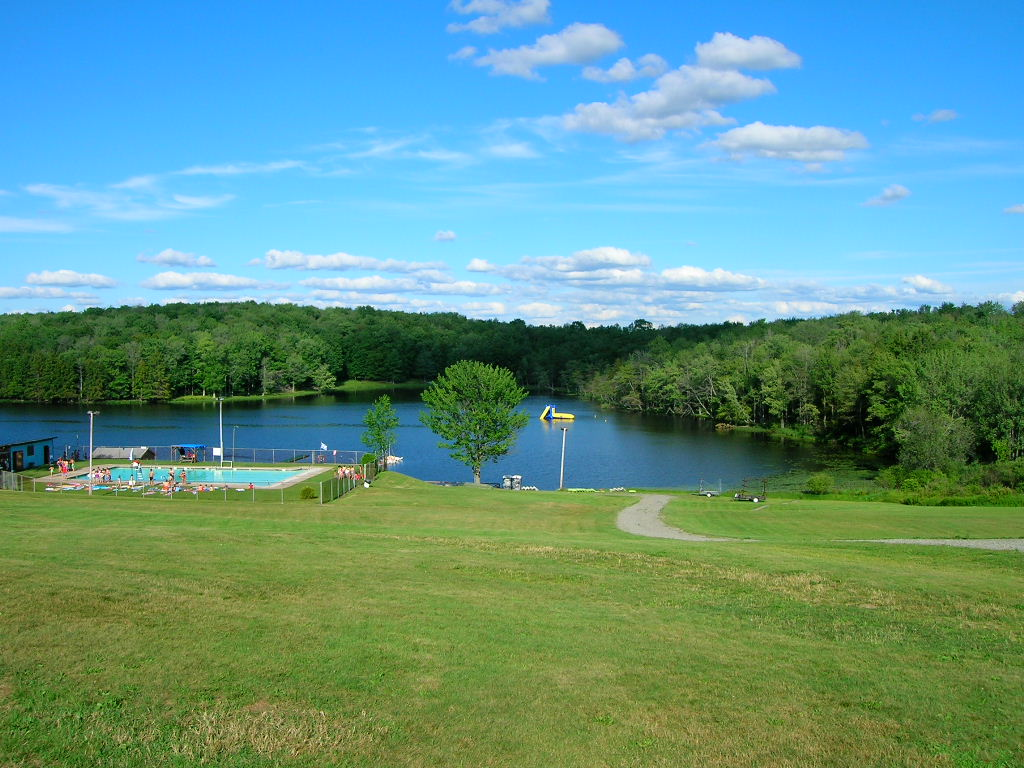 This photo was taken during the 2006 summer at Camp Ramah in the Poconos. Pictured is the lake and the pool as seen from the top of boys campus.